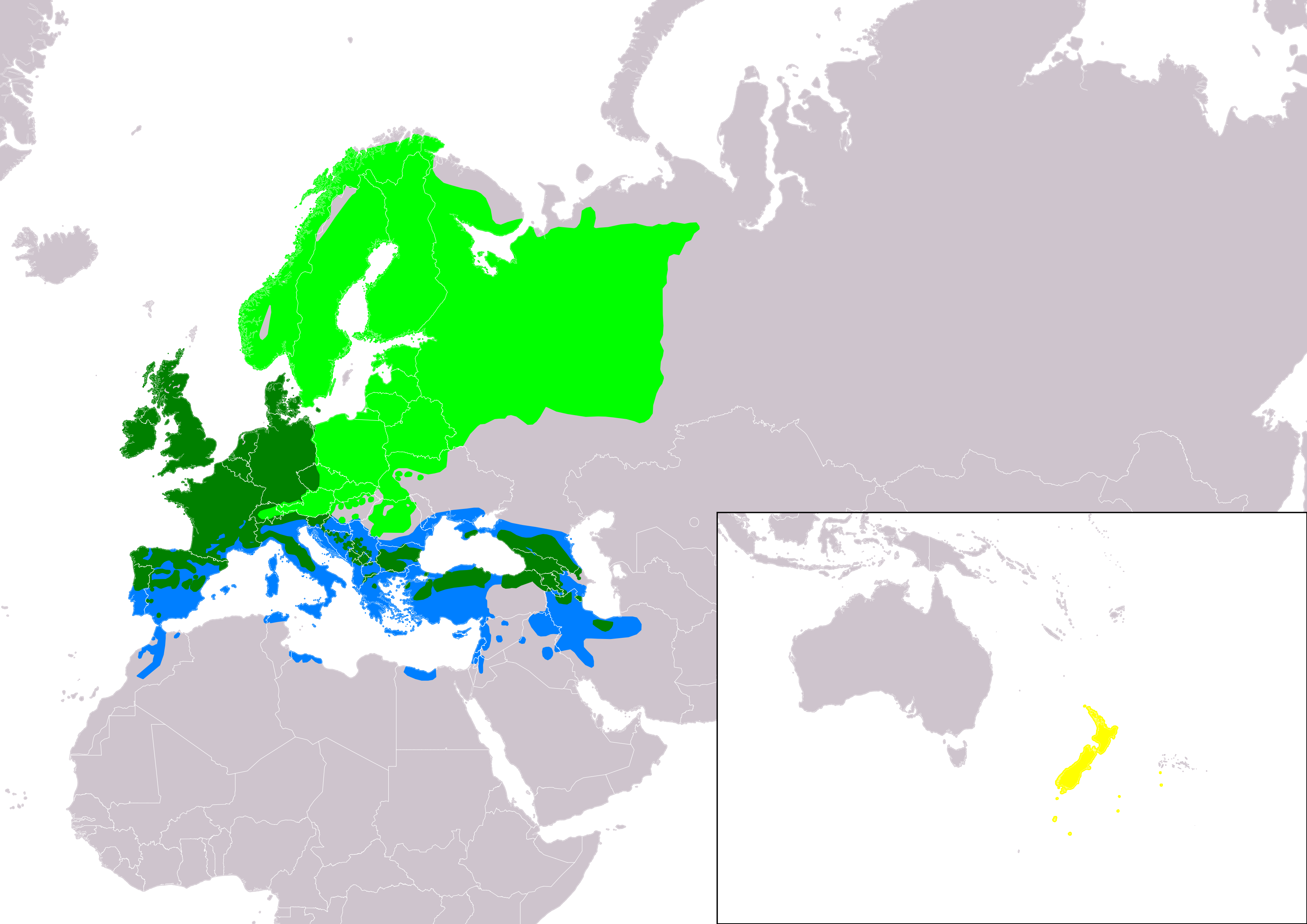 Distribution map of dunnock (Prunella modularis) according to IUCN version 2020.1 (compiled by: BirdLife International and Handbook of the Birds of the World (2018) 2017.); key: Legend: Extant, breeding (#00FF00), Extant, resident (#008000), Extant, non-breeding (#007FFF), Extant & Introduced (resident) (#FFFF00)